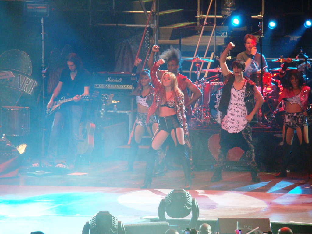 Miley Cyrus singing live in Curicica, Rio de Janeiro, RJ, BR from her tour 'Gypsy Heart'